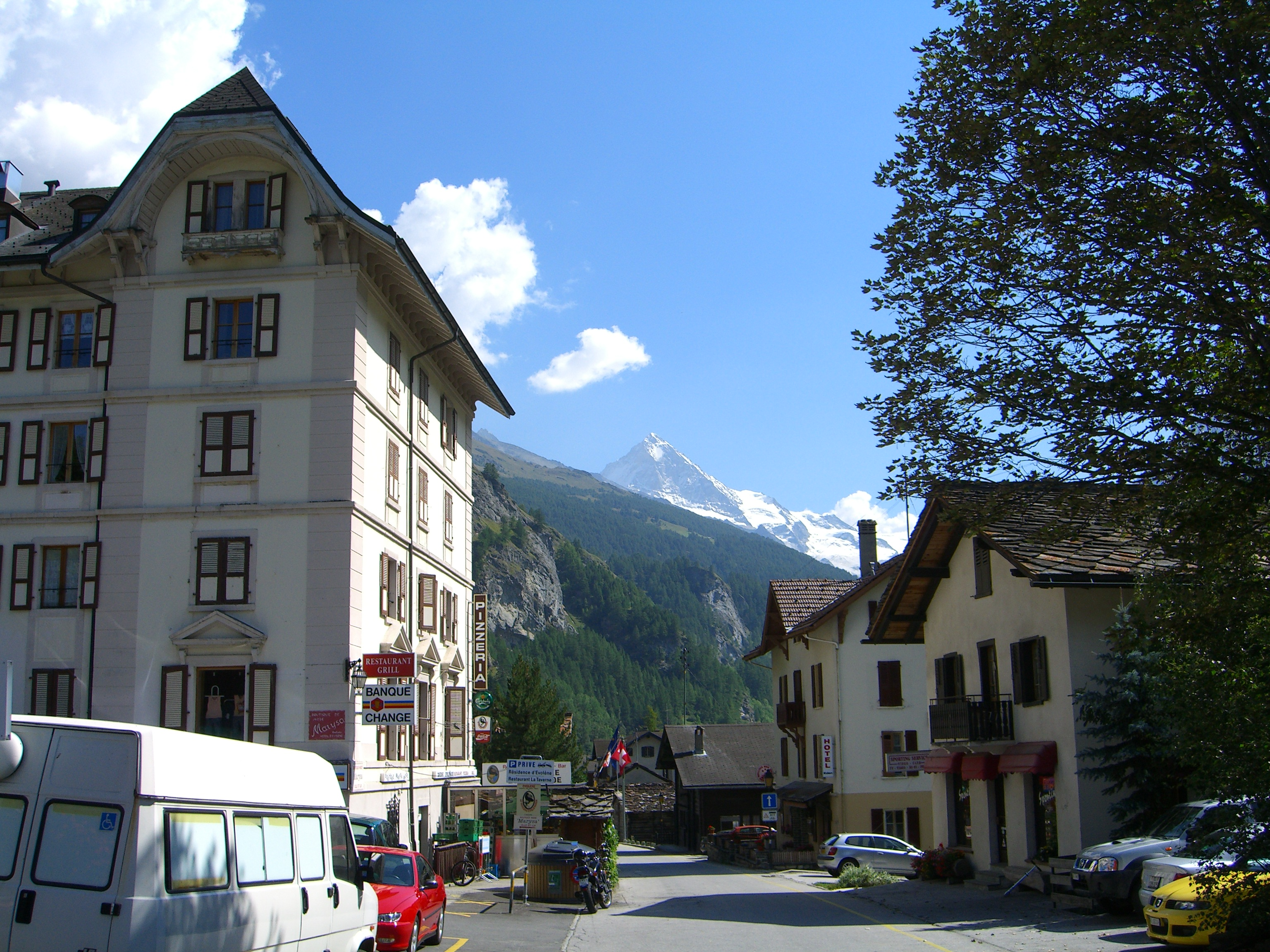 Evolène, Valais, Switzeland